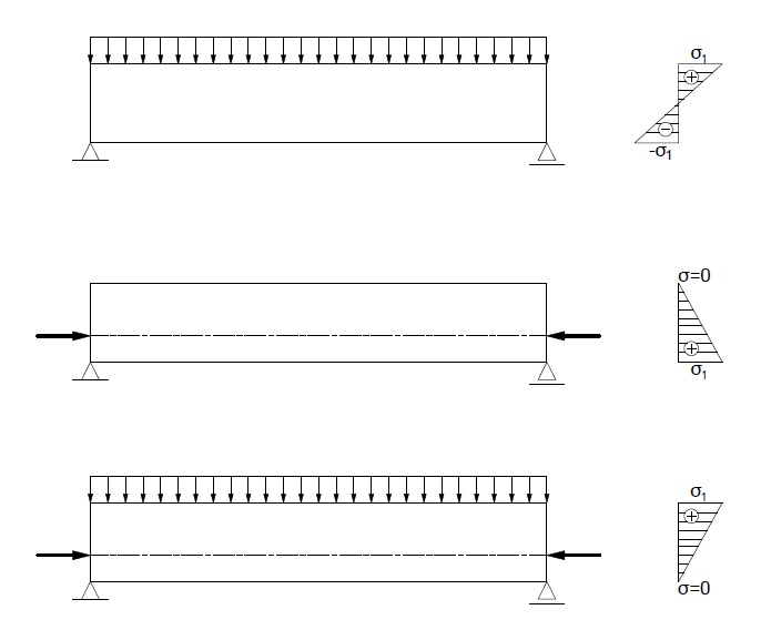 Distribution of stress in prestressed concrete